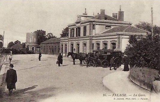 The train station of Falaise (Calvados, France) was built in 1859 and destroyed in 2004